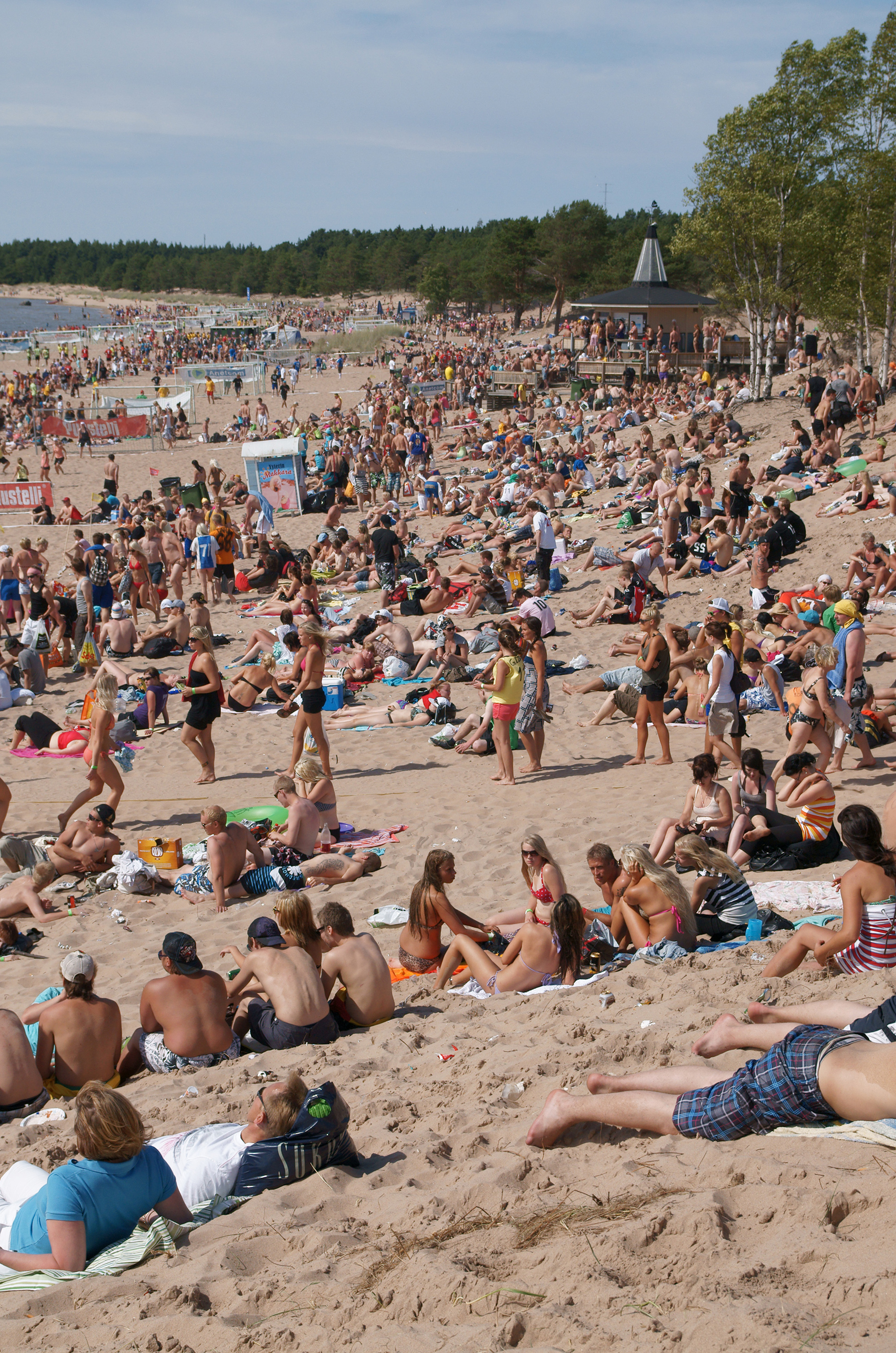 Yyteri beach and Bikini Bar during Yyteri Beachfutis.